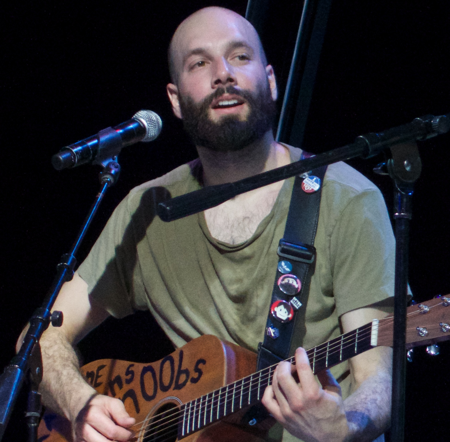 Natalie and Jack